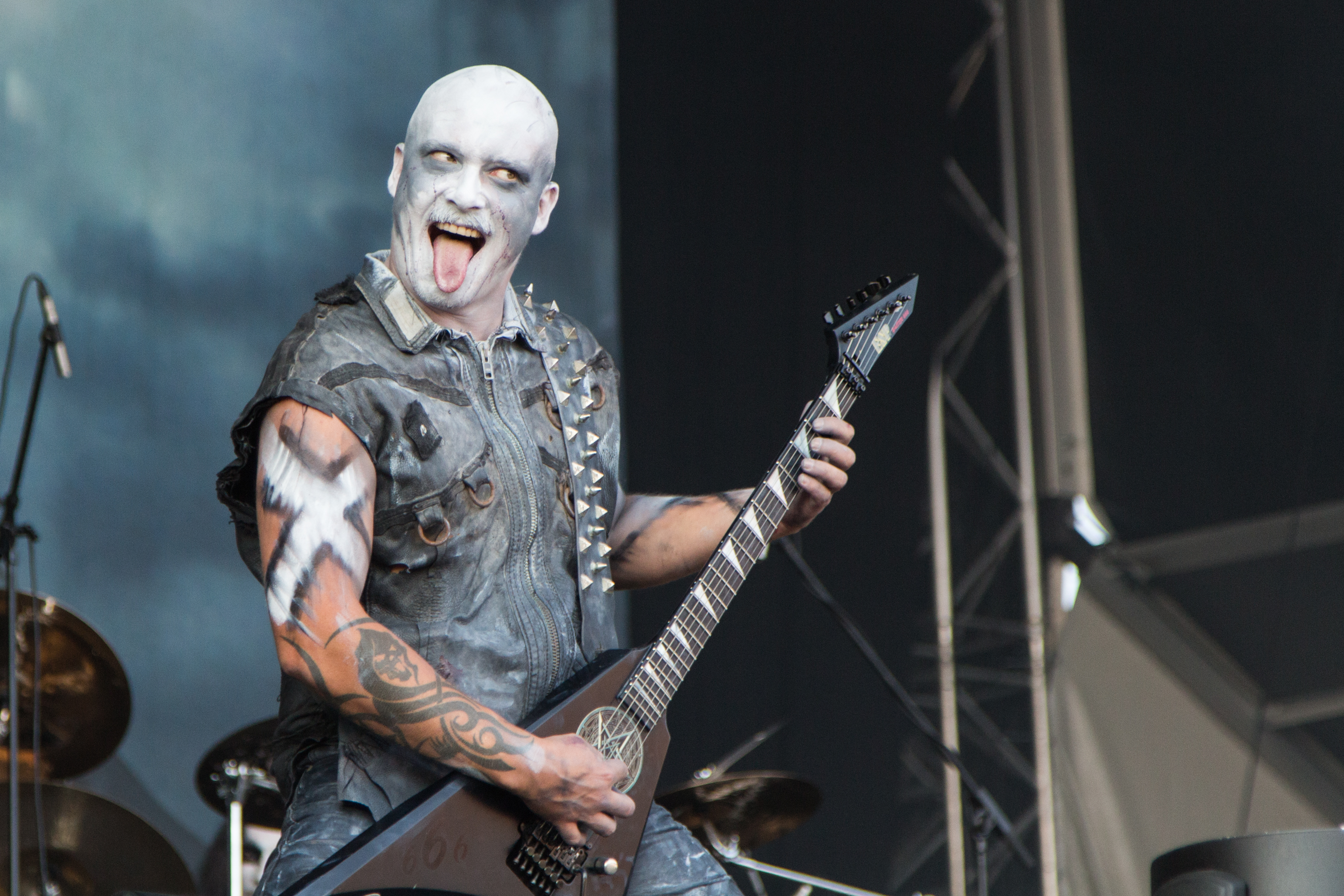 Thomas Rune "Galder“ Andersen from Dimmu Borgir at the See-Rock Festival 2014